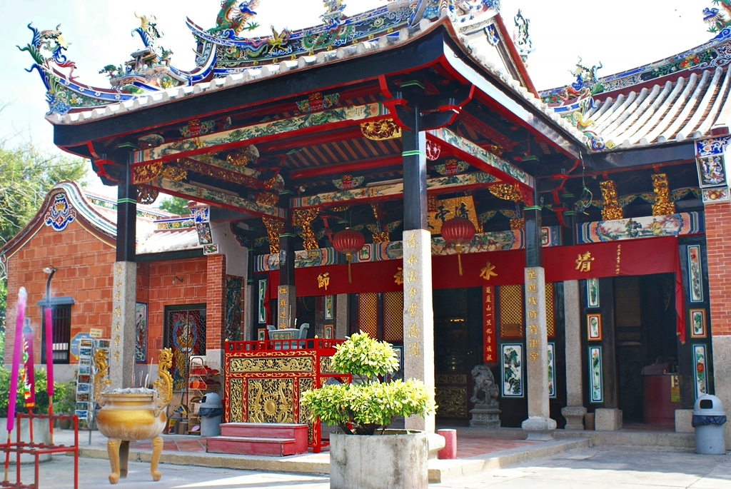 Snake Temple, a Chinese temple located in Bayan Lepas about 3 kilometres (2 miles) from George Town